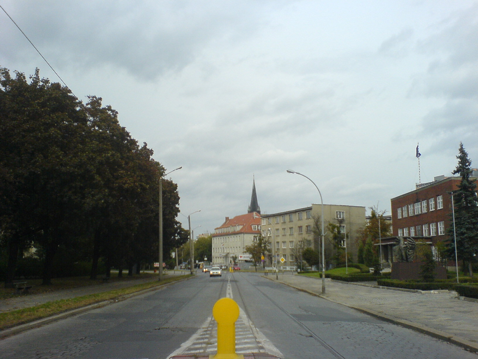 Wrocław, Gajowicki Park, Gajowicka Street